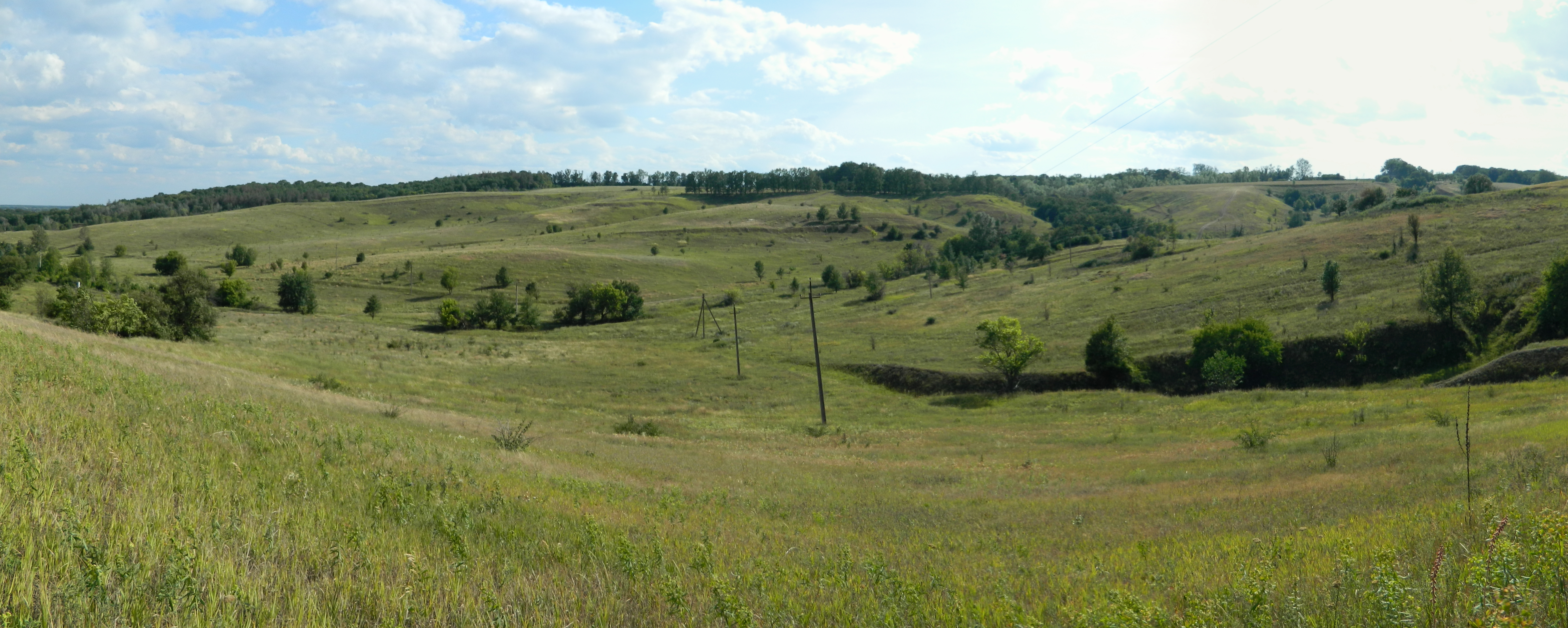 Fesenkovi Gorby (Fesenko knobs) - general zoology reserve local between villages Pysarivschyna and Big Budyshche. Regional Landscape Park "Dykanka"